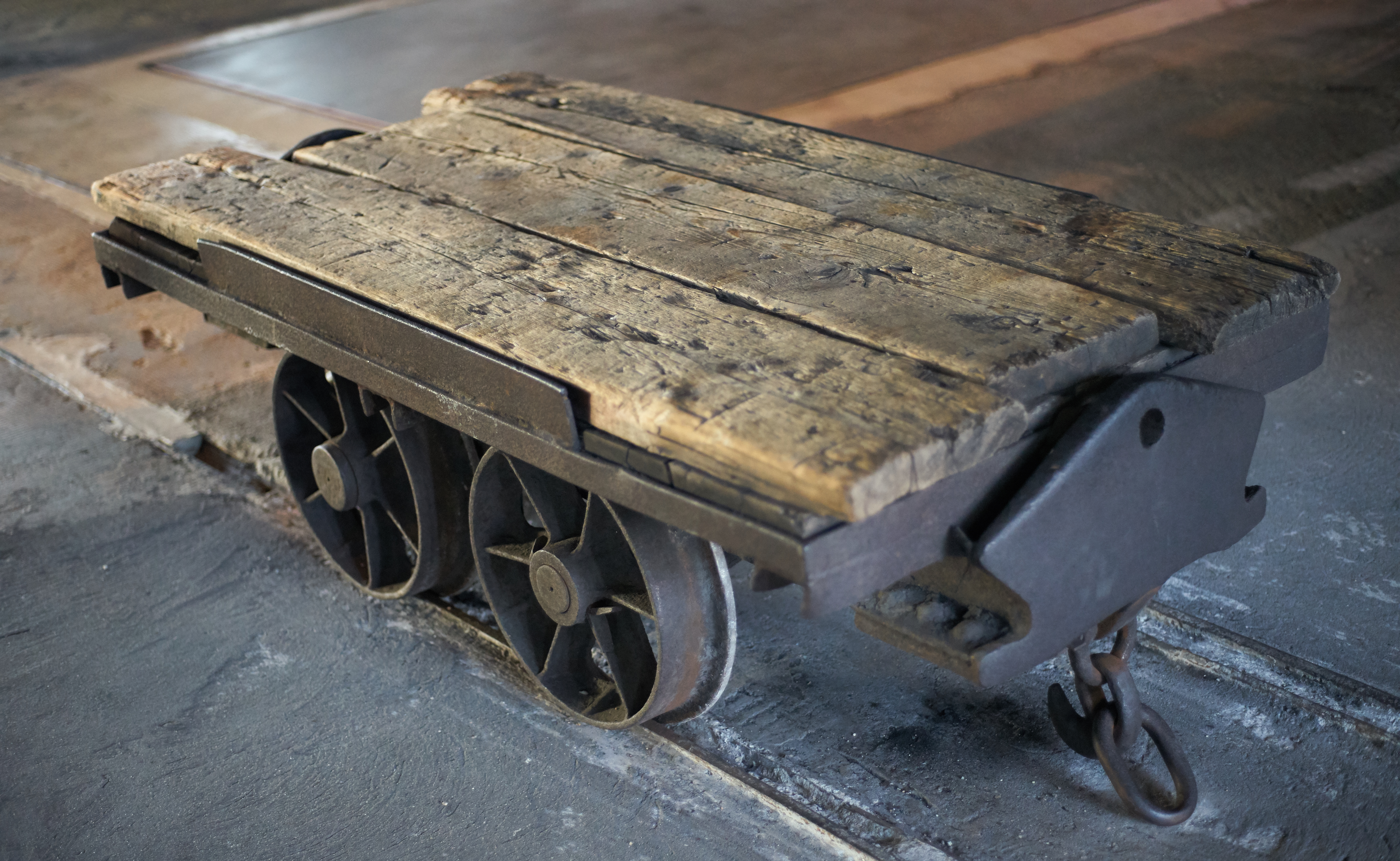 Minecart from the coal preparation plant of Zollverein Coal Mine industrial complex. Zollverein is a large former industrial site in the city of Essen, North Rhine-Westphalia, Germany. It has been inscribed into the UNESCO World Heritage Sites since December 14, 2001 and is one of the anchor points of the European Route of Industrial Heritage. This place is a UNESCO World Heritage Site, listed as Zollverein Coal Mine Industrial Complex in Essen.